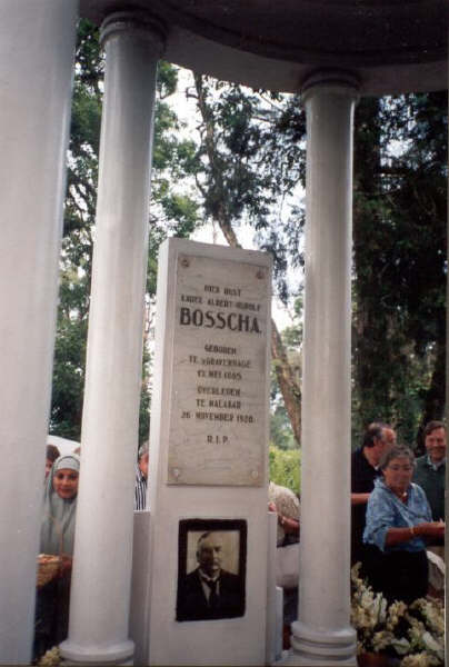 Grave of Karel Albert Rudolf Bosscha